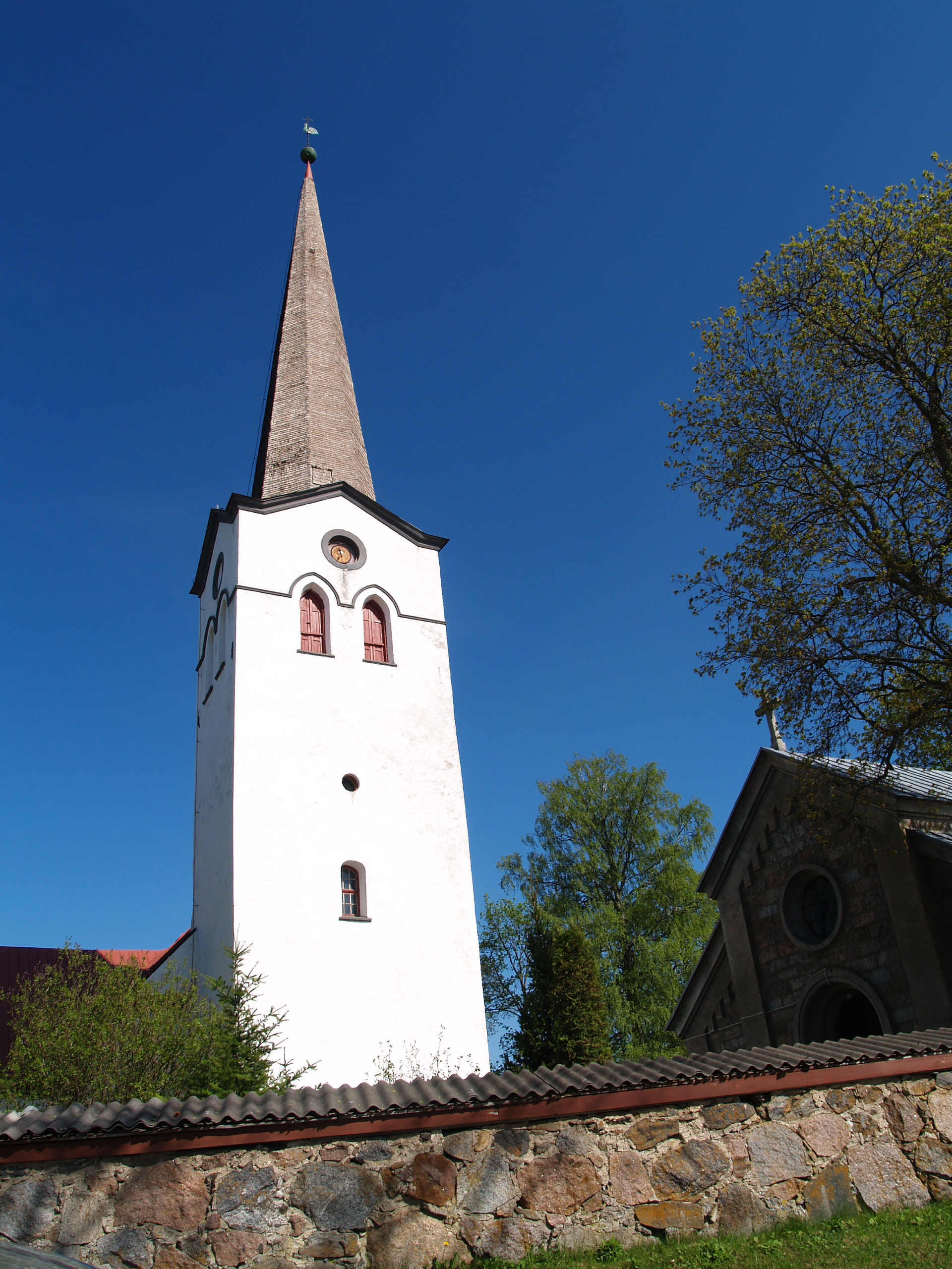 Kose Church in Kose, Harju County, Estonia.